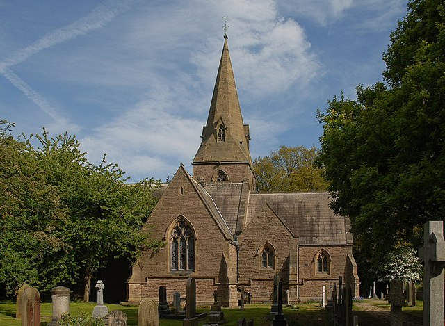 St. Anne's. Singleton, near to Singleton, Lancashire, Great Britain. St. Anne's. Singleton